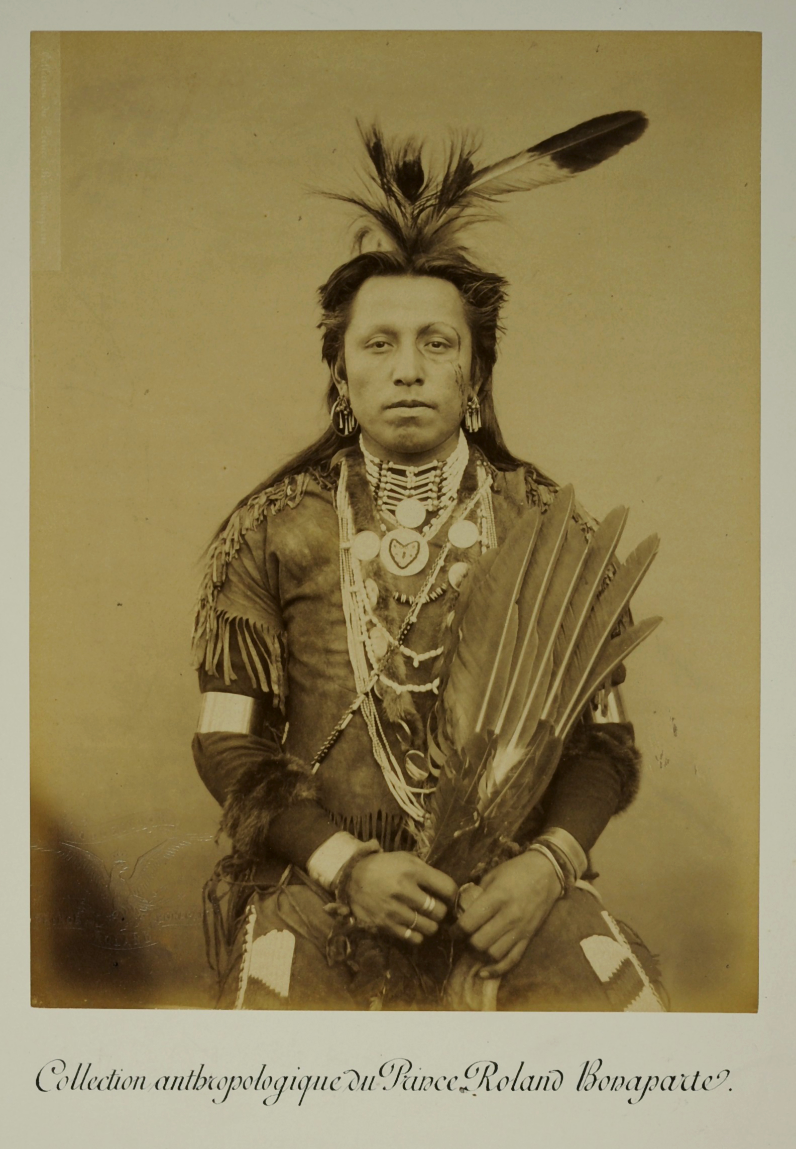 Photographie de 16,8x22 cm sur carton de 31x41 cm (tirage albuminé)Tampon à sec visible sur la photo et le carton : « Collection du Prince Roland Bonaparte » Au recto : « Collection du Prince Roland Bonaparte », « N° 10 » Référence de la photo ː MHNT-PH-2014-0-2-19-001